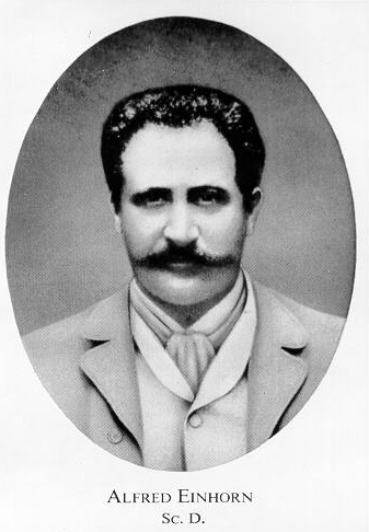 Alfred Einhorn Sc.D ("Sc. D." = doctor of science)